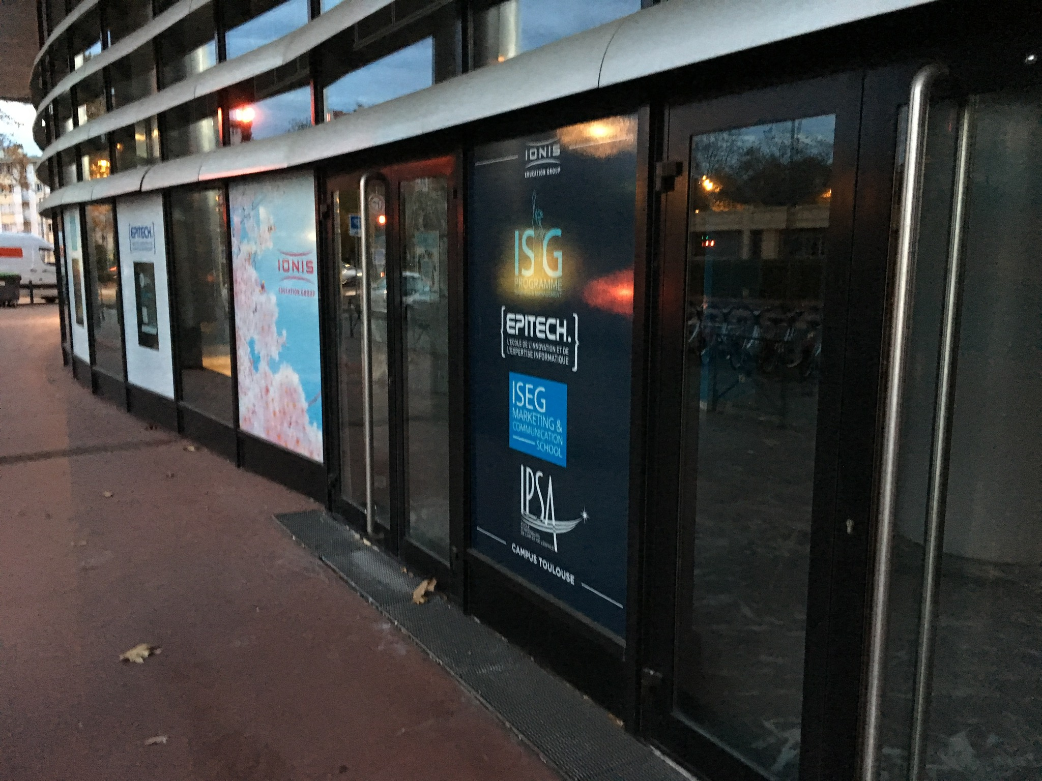 Campus toulousain de l’IPSA, école d’ingénieurs de l’air et de l’espace